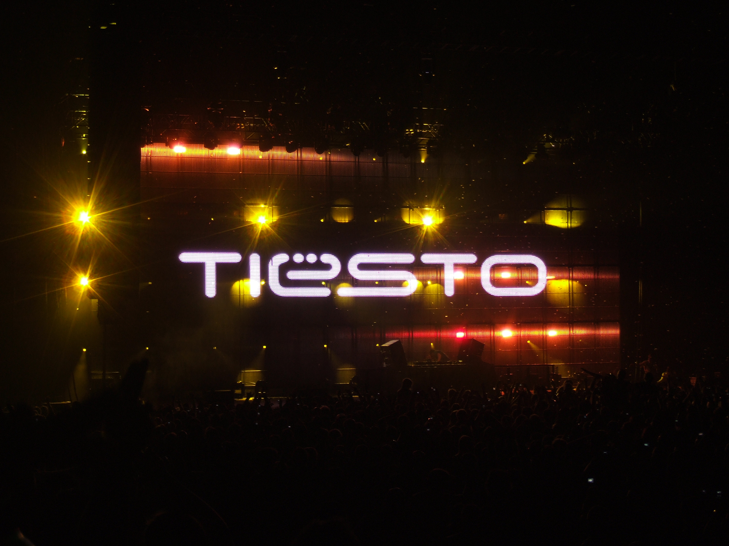 Tiesto at the O2, August 2008